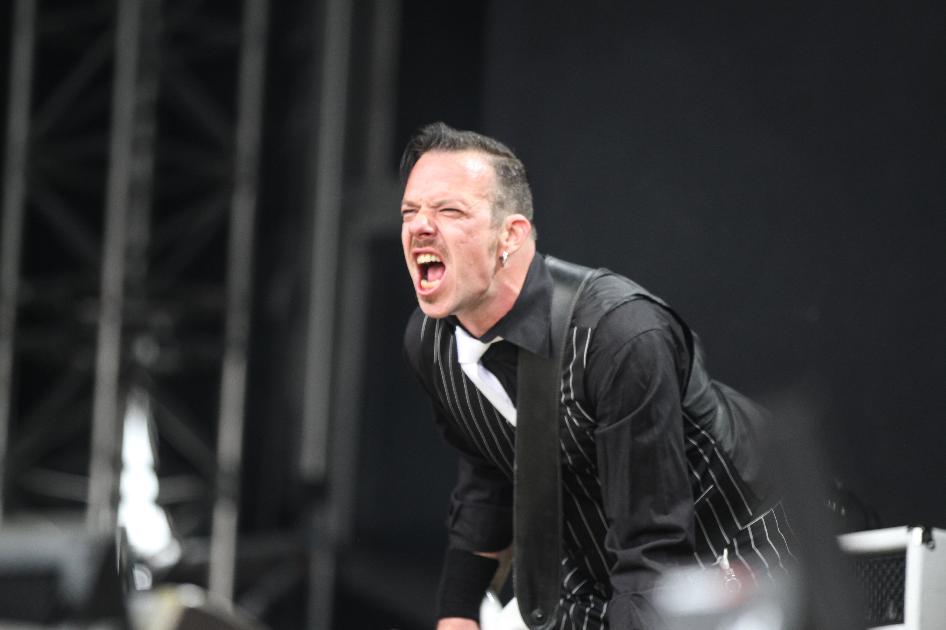 Festivalsommer This photo was created with the support of donations to Wikimedia Deutschland in the context of the CPB project "Festival Summer".